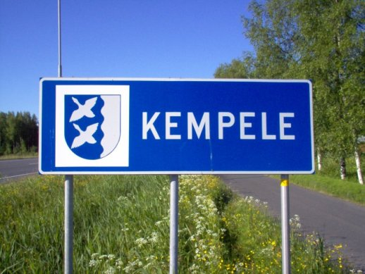 Municipal border sign of Kempele, Finland